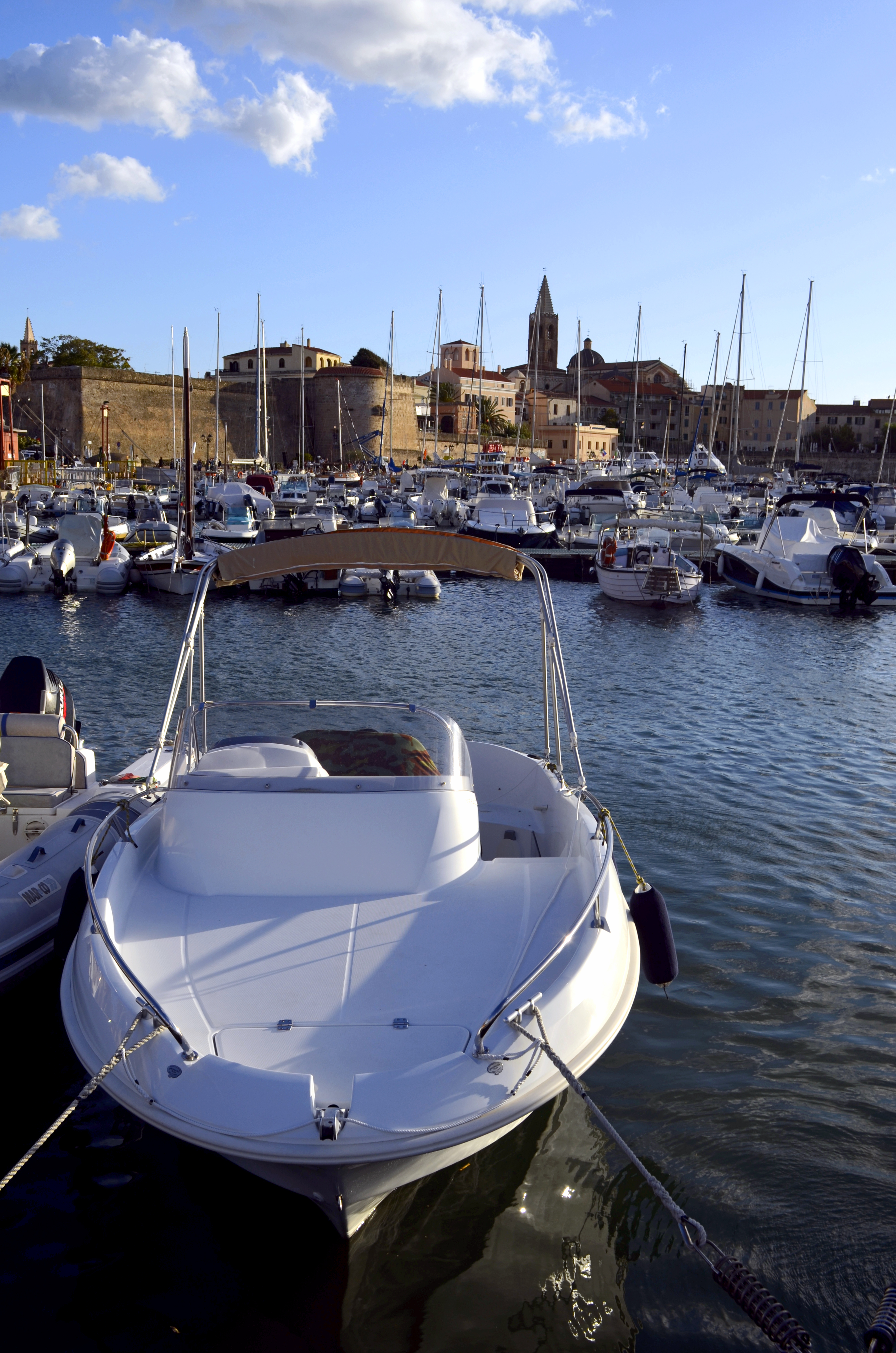 Alghero harbour